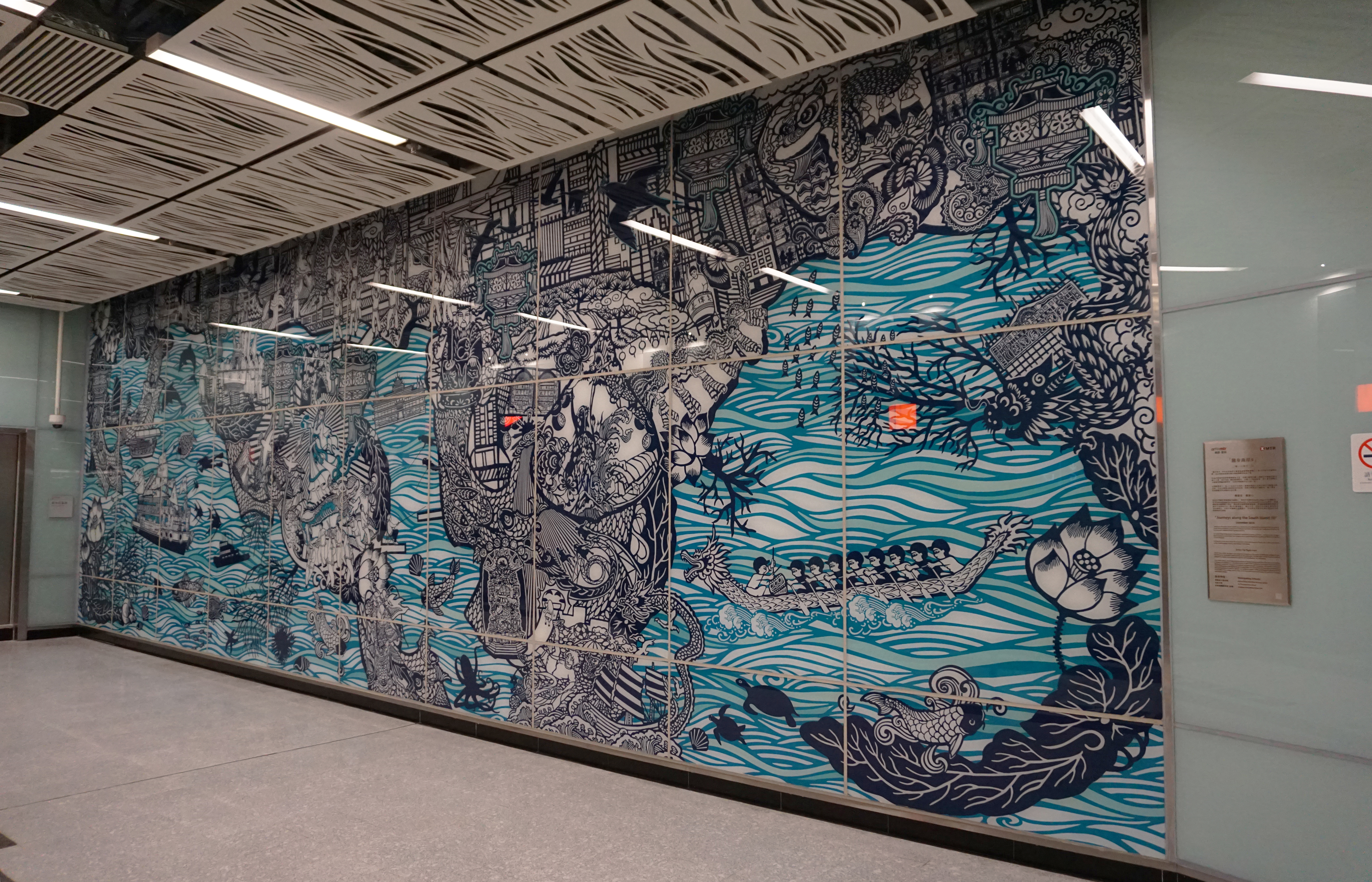 Journeys along the South Island in Lei Tung Station, Hong Kong.